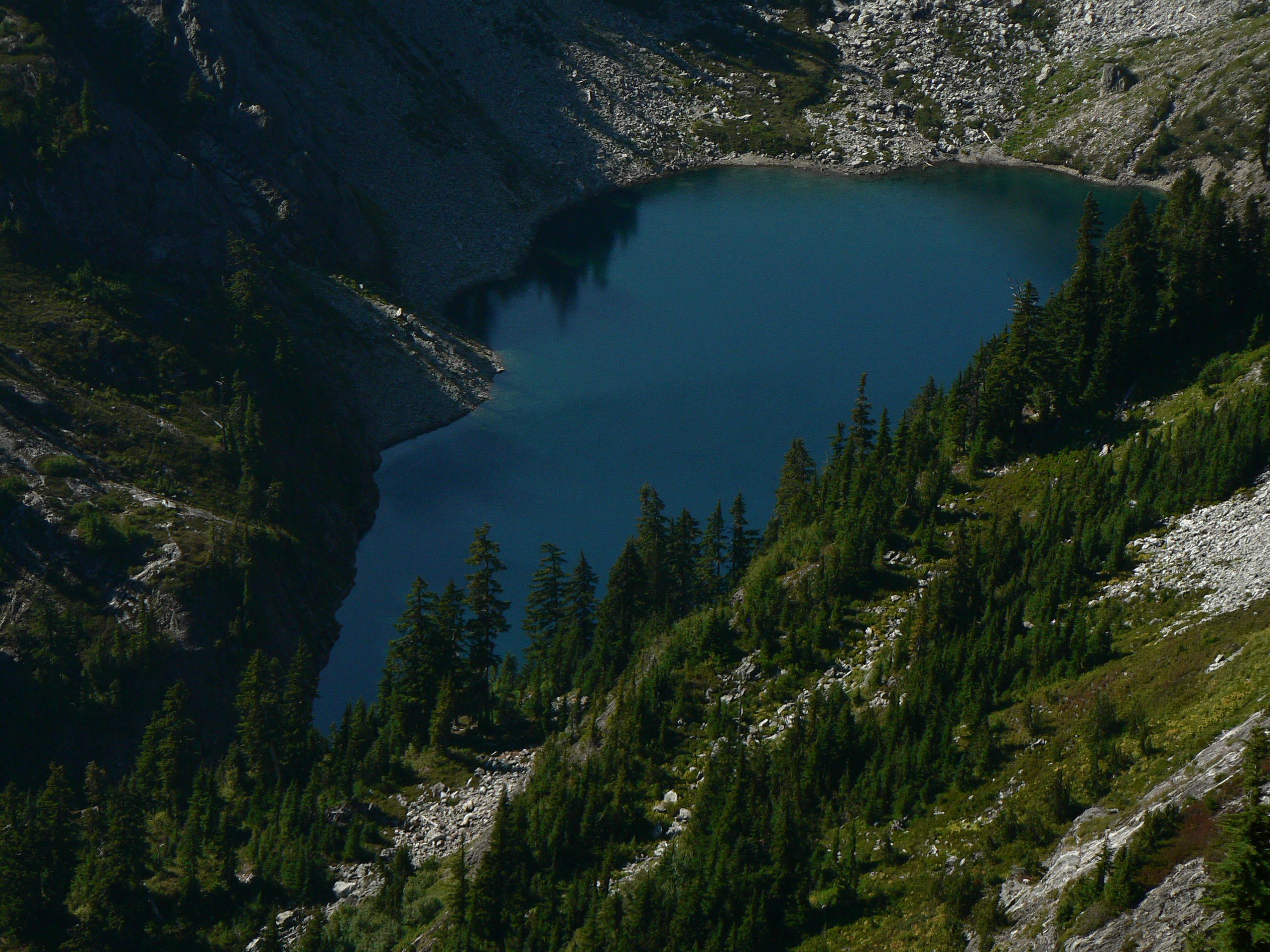 Thornton Lakes Middle Thornton Lake, 4700 feet, 1433 m